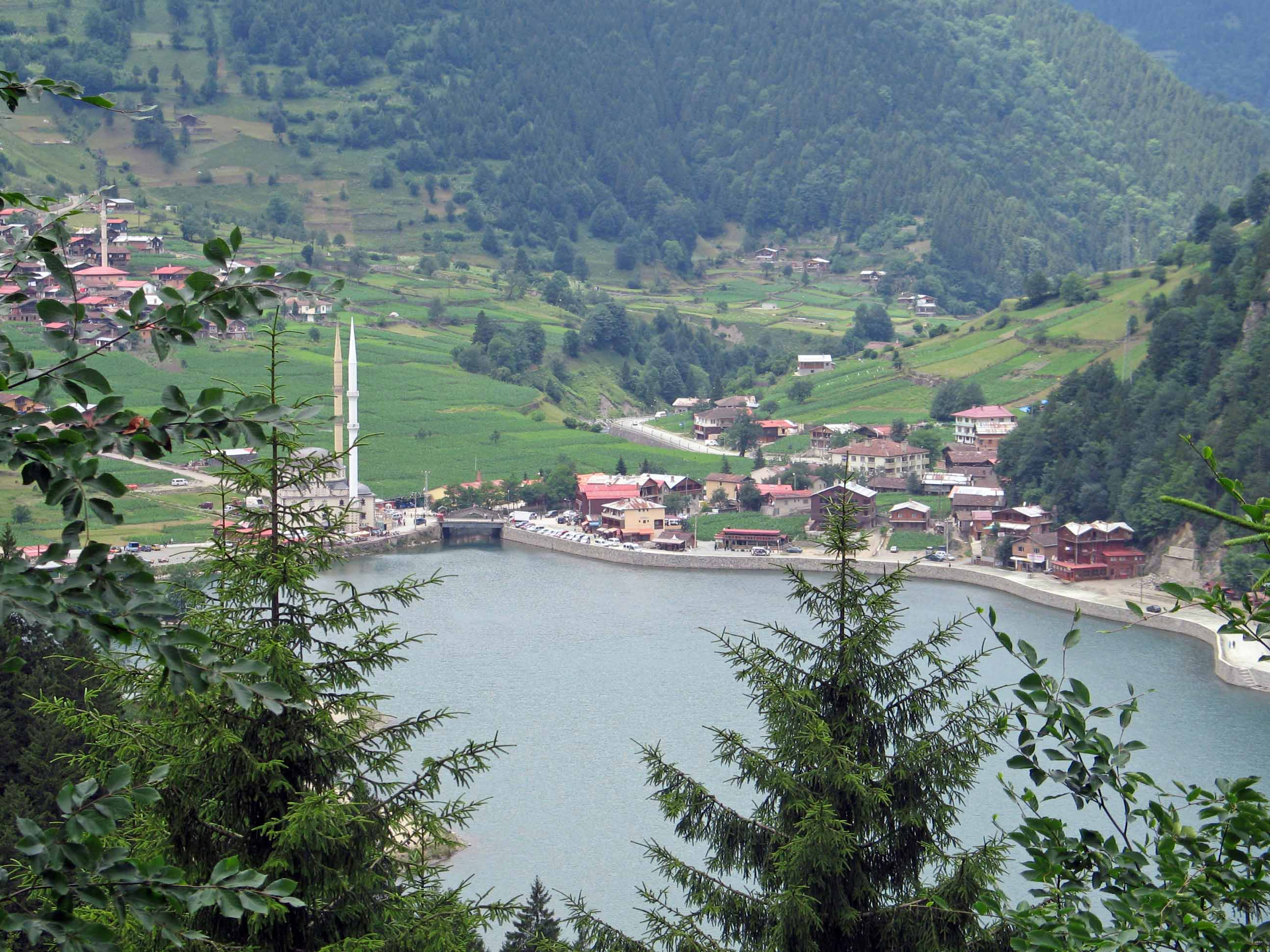 Uzungöl lake and village. Trabzon, Turkey